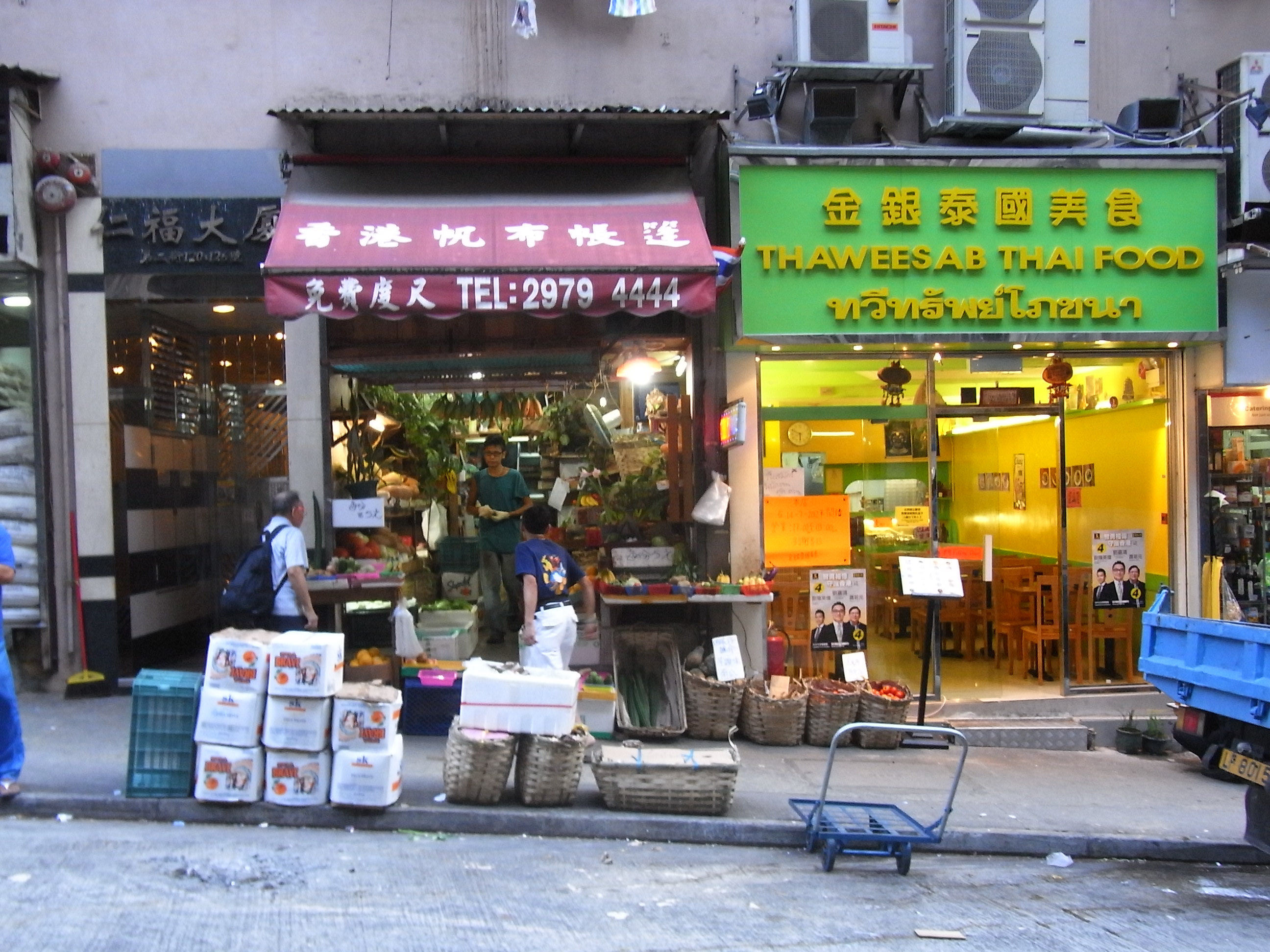 Evening in Sai Ying Pun, Hong Kong